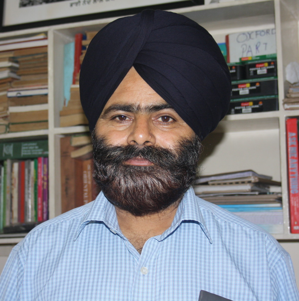 Punjabi poet